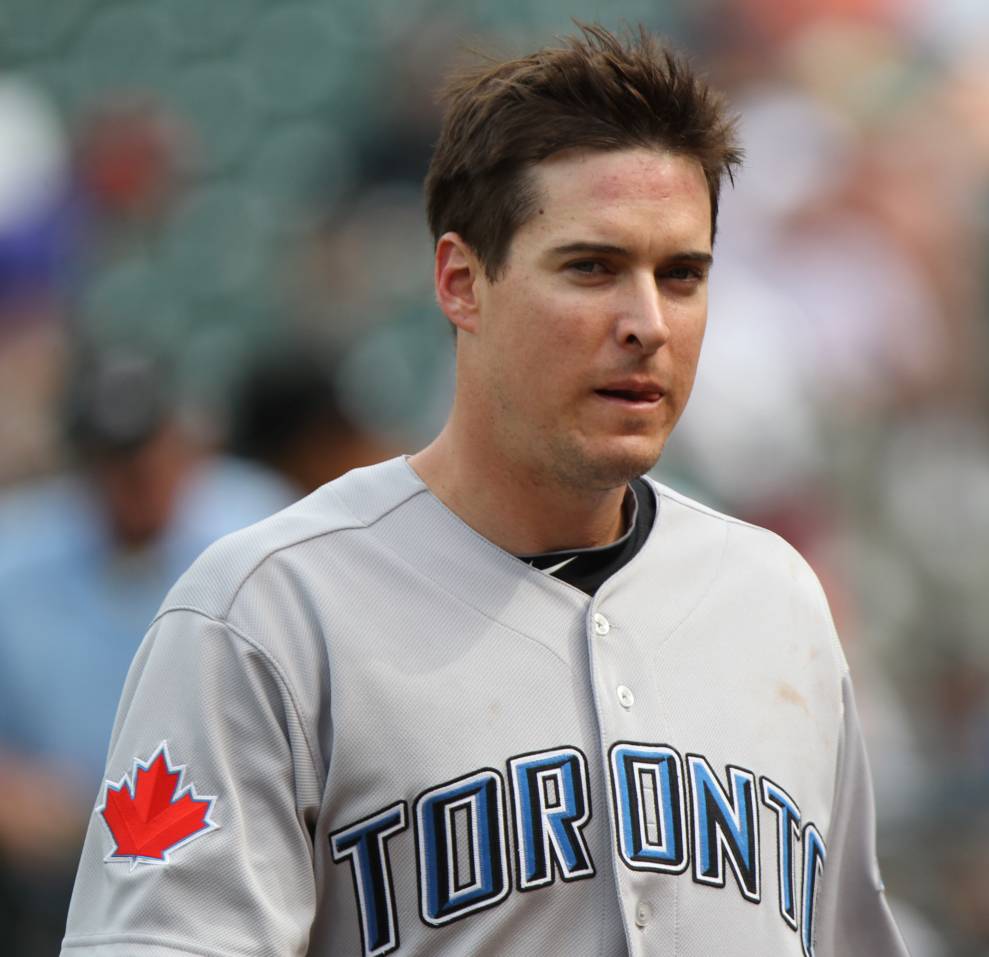 Blue Jays at Orioles September 1, 2011